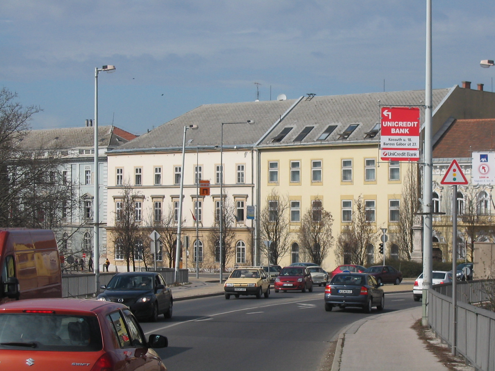 The Varga Katalin Secondary School, Szolnok from the bridge of River Tisza